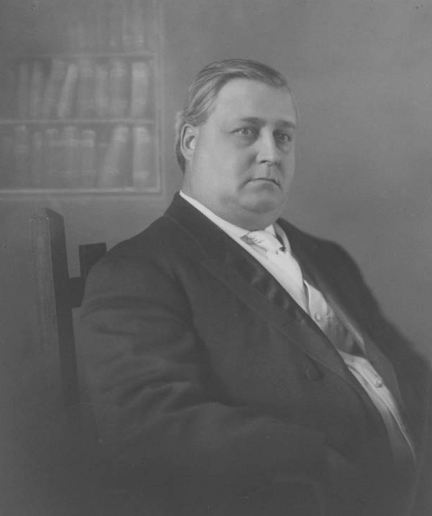 Judge Charles Fisk. Collection of SHSND, E262 Charles Fisk